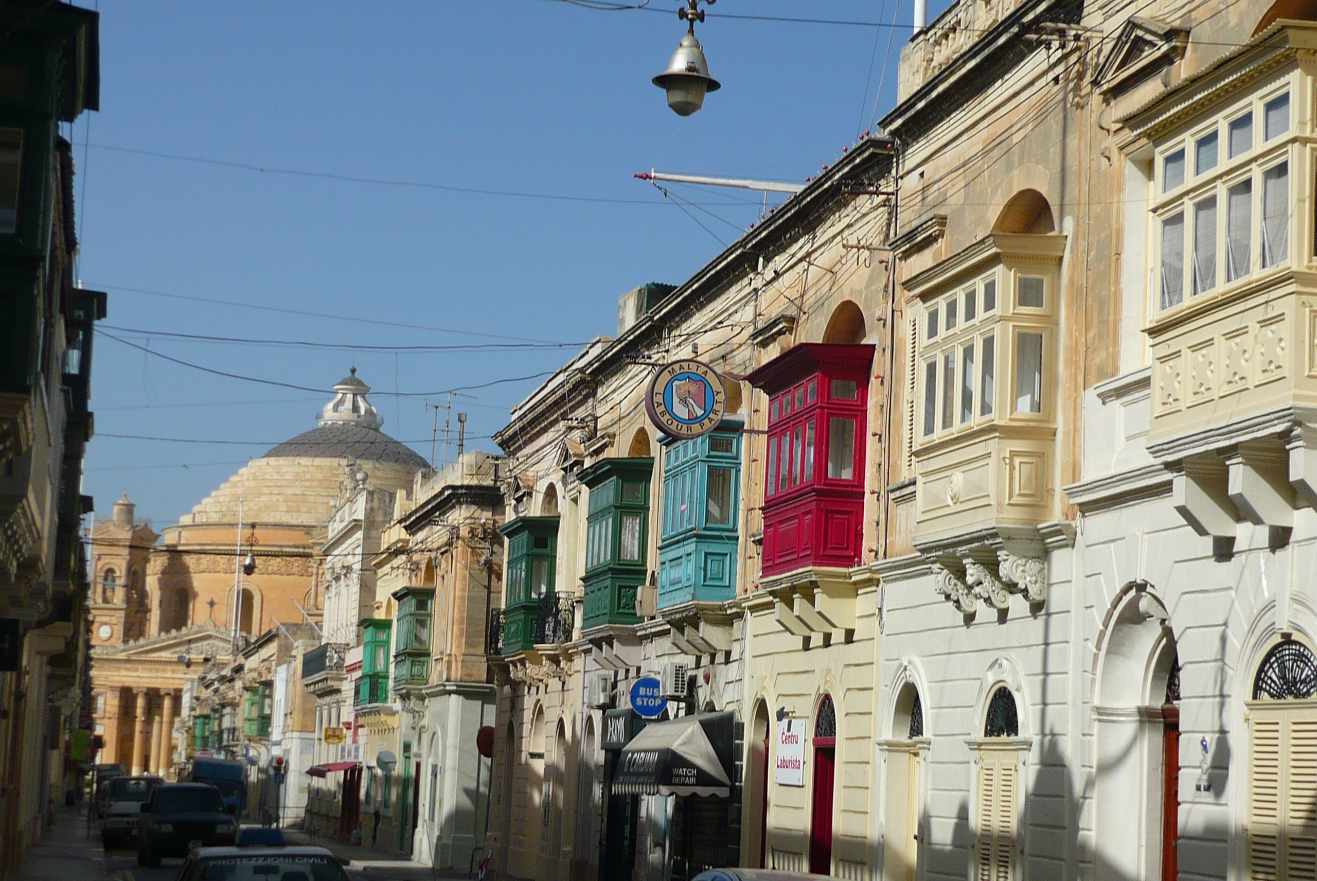 Typical maltese balkonys with the church with the rotunda in the background in mosta